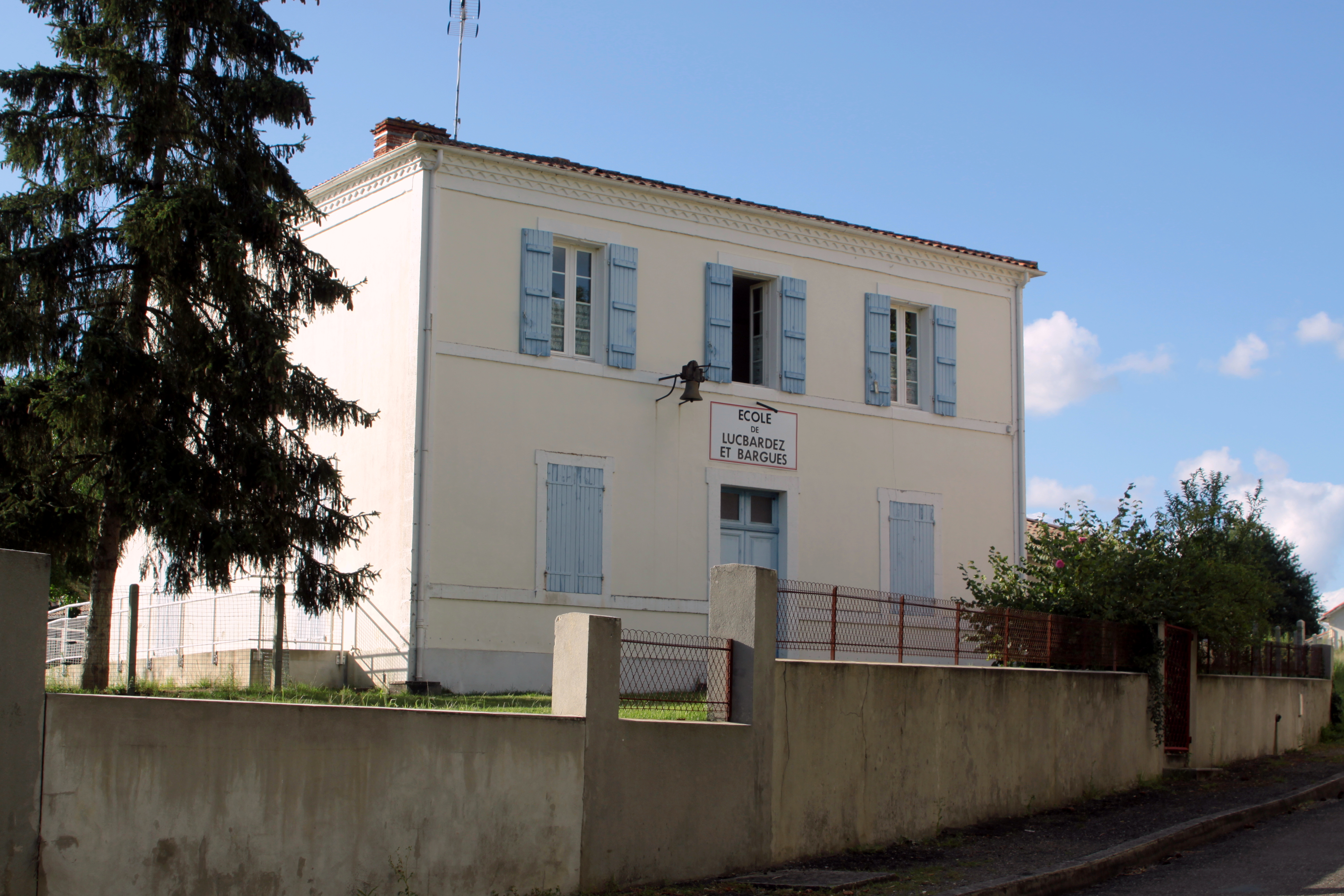 School of Lucbardez-et-Bargues